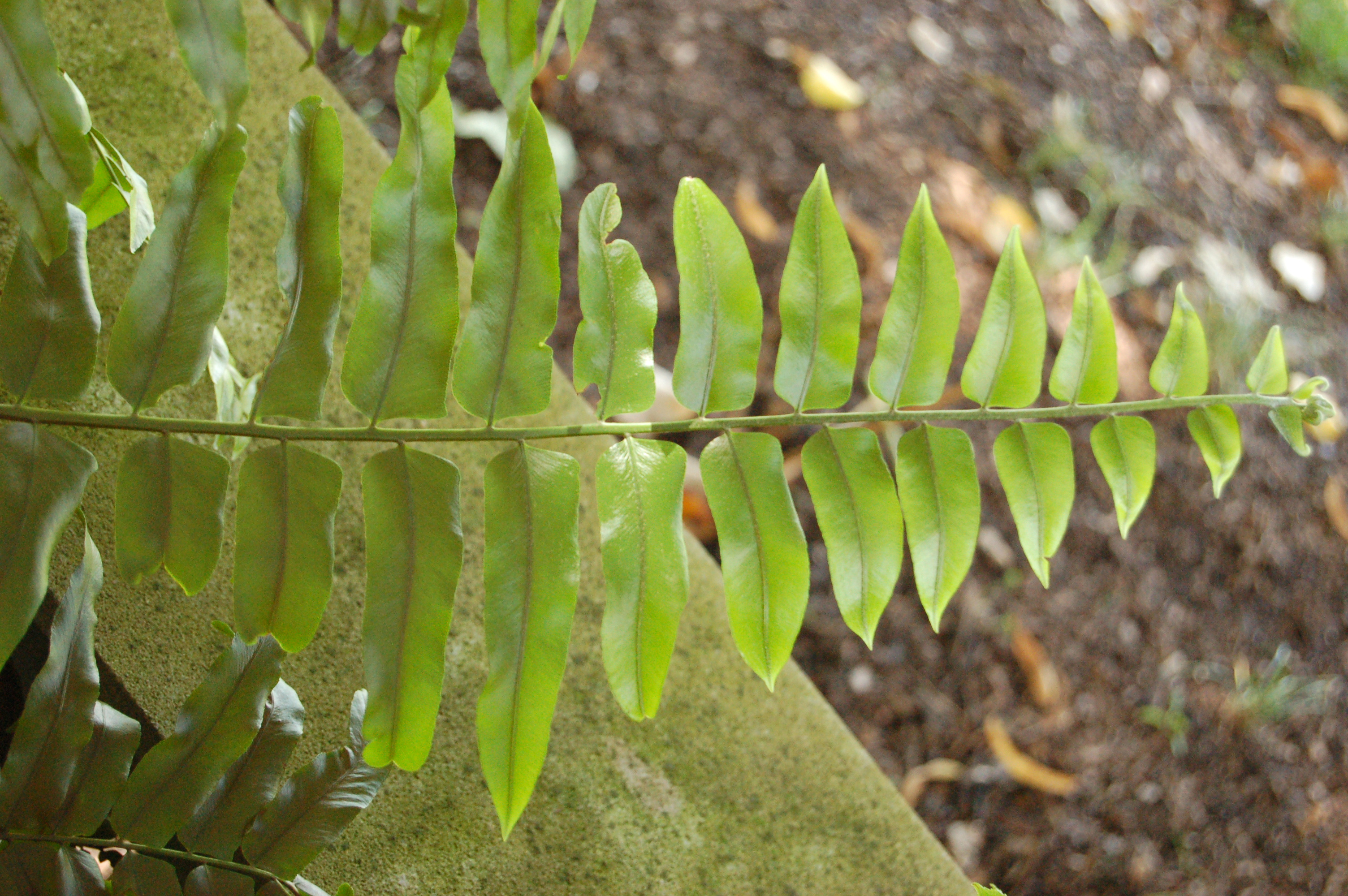 A picture of the leaf of the Nephrolepis biserrata en 'Macho' plant. Photo taken at the Chanticleer Garden where it was identified.